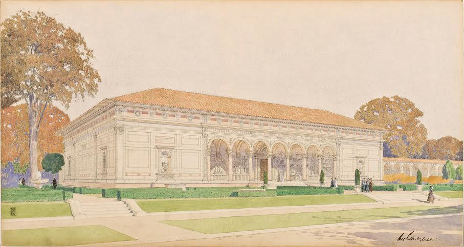 Architectural drawing of the Allen Memorial Art Museum